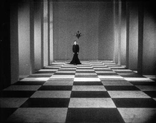 Frame from the movie The Seashell and the Clergyman (1928)